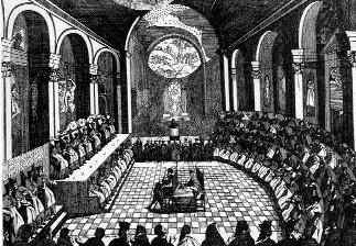 Renaissance print